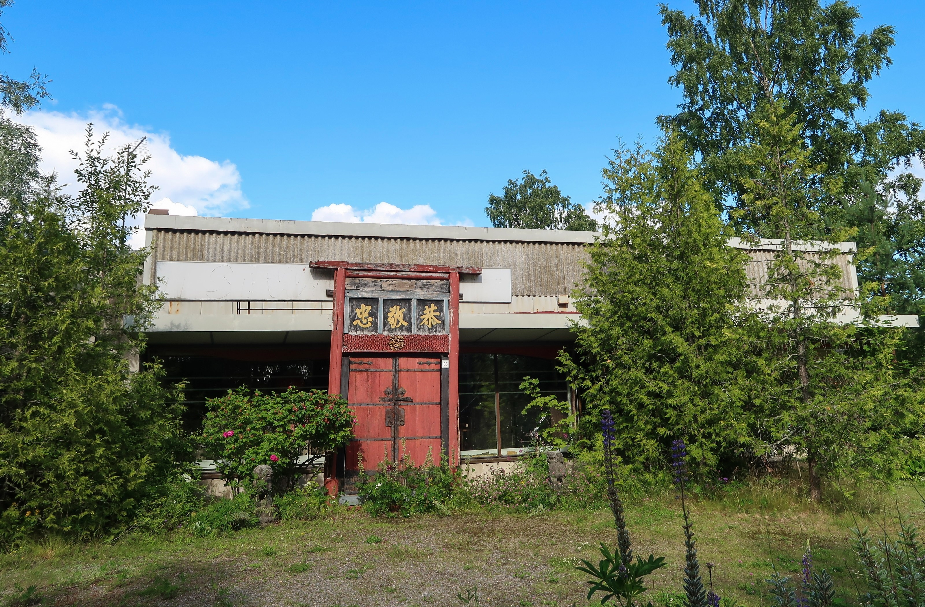 Closed Chinese restaurant in small village of Southern Finland